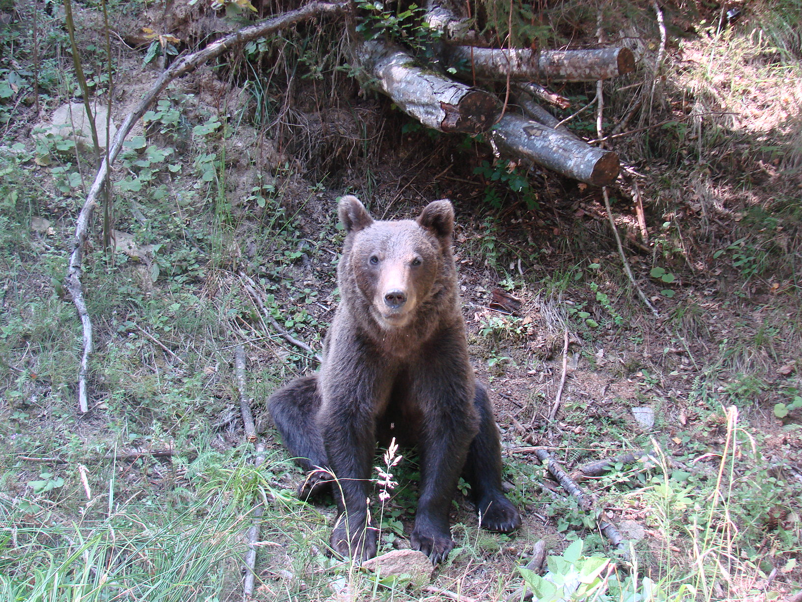 Brown bear (Ursus arctos) near the Transfăgărăşan route, in Făgăraş Mountains.